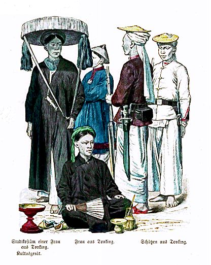 Text below the pictures (translated from German): Town Dress of a woman from Tonkin. Cult Object. Woman from Tonkin. Riflemen from Tonkin.